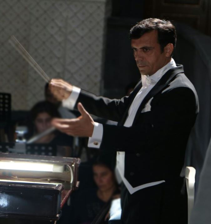 Azerbaijani conductors